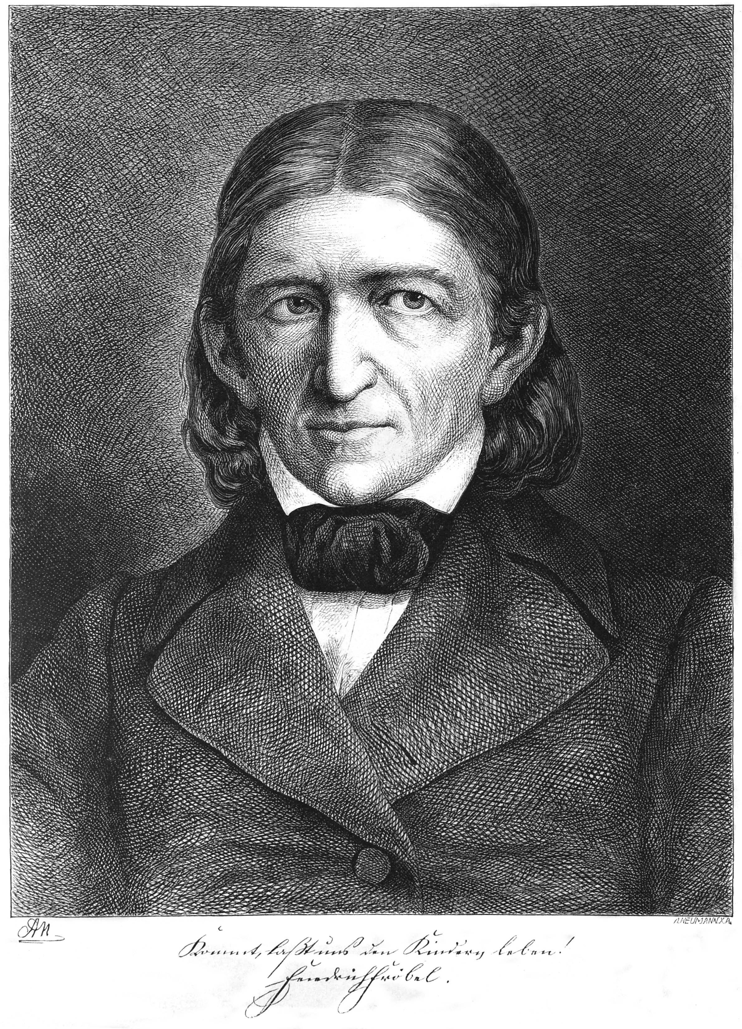 caption: "Kommt, laßt uns den Kindern leben! Friedrich Fröbel. Originalzeichnung von Adolf Neumann."